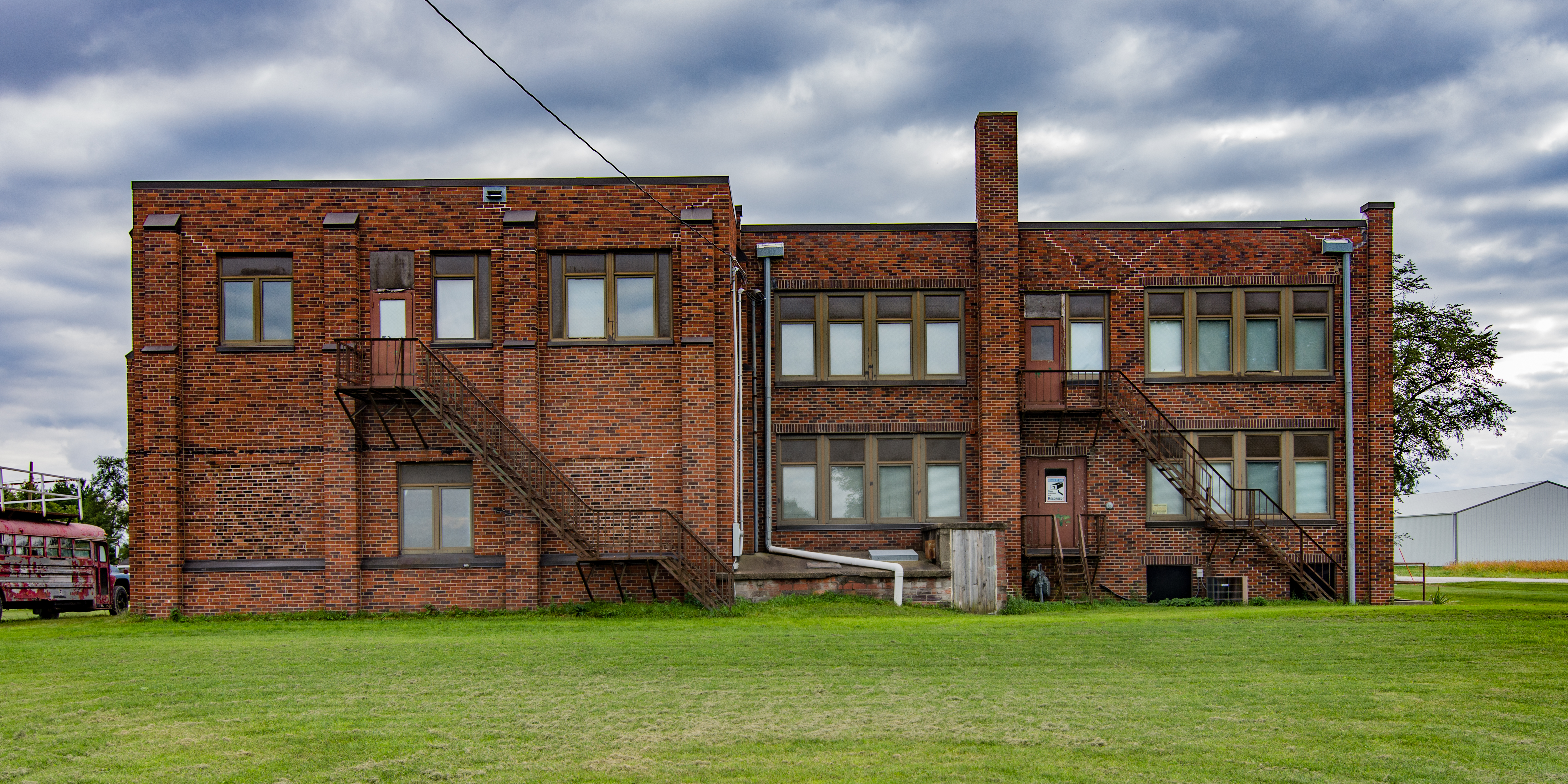 Williamson School Back (North face) Williamson Iowa NRHP 98000374